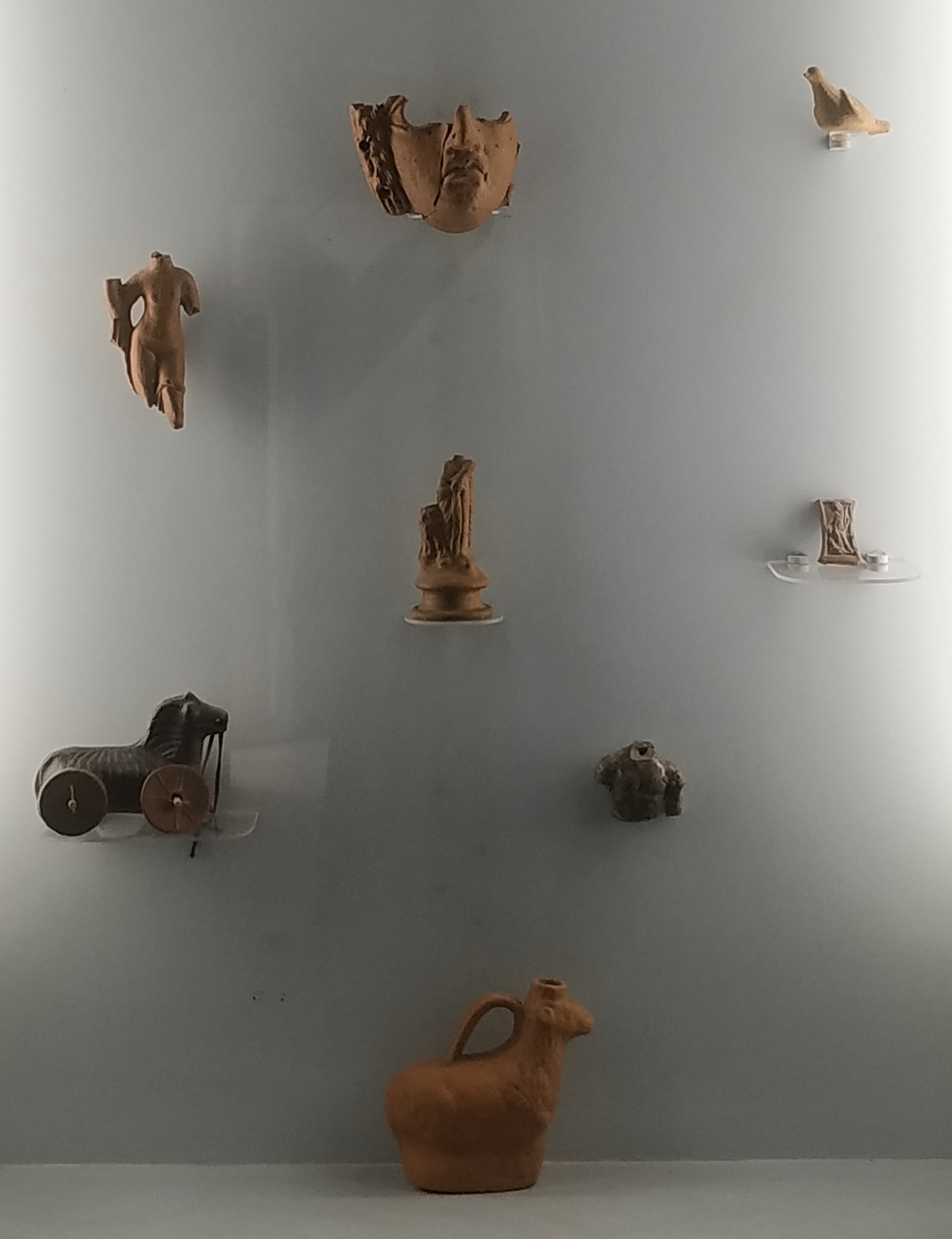 Toys exibited at National Museum in Požarevac